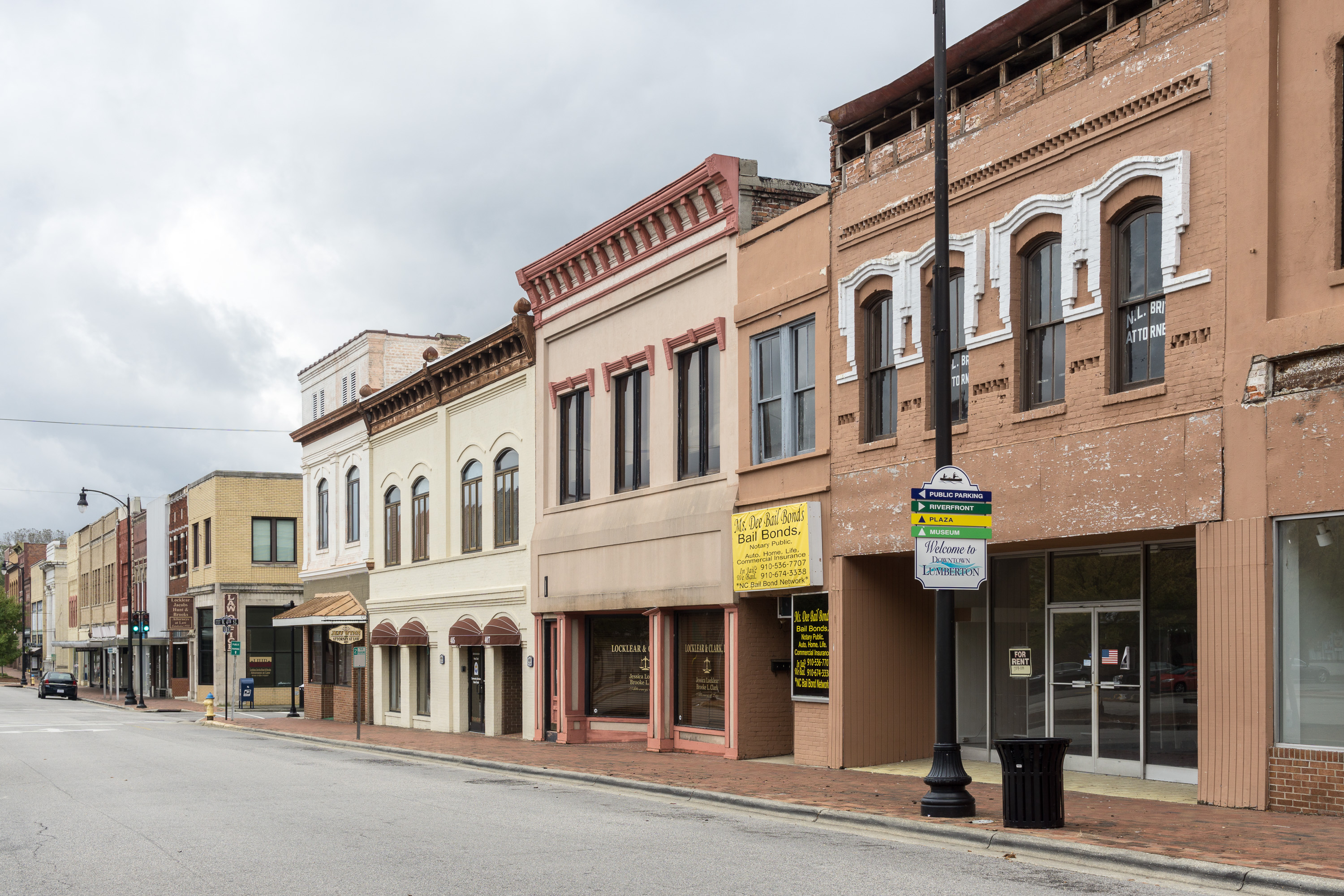 Looking down North Elm Street, downtown Lumberton North Carolina